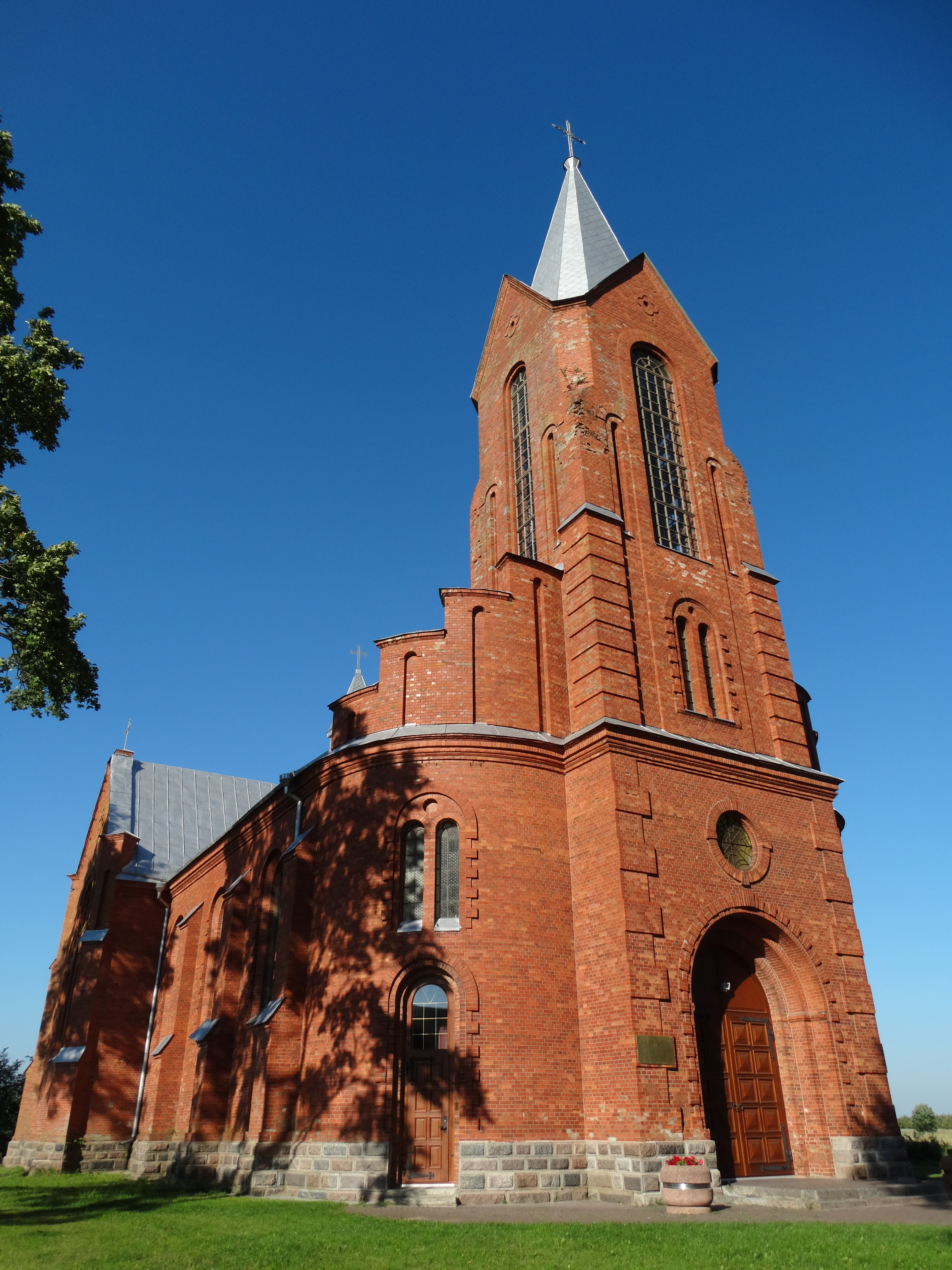 St. Peter and St. Paul's Church in Karkažiškė, Švenčionys District, Lithuania